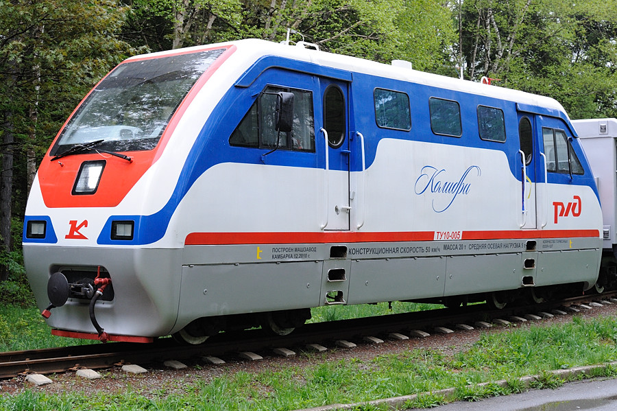 ТУ10-005 engine at Juschno-Sachalinsk